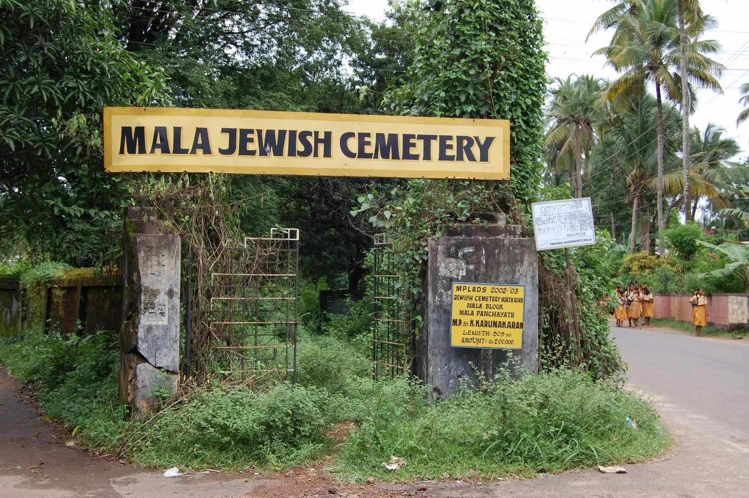 Jewish cemetery sign at Mattancherry, Kerala